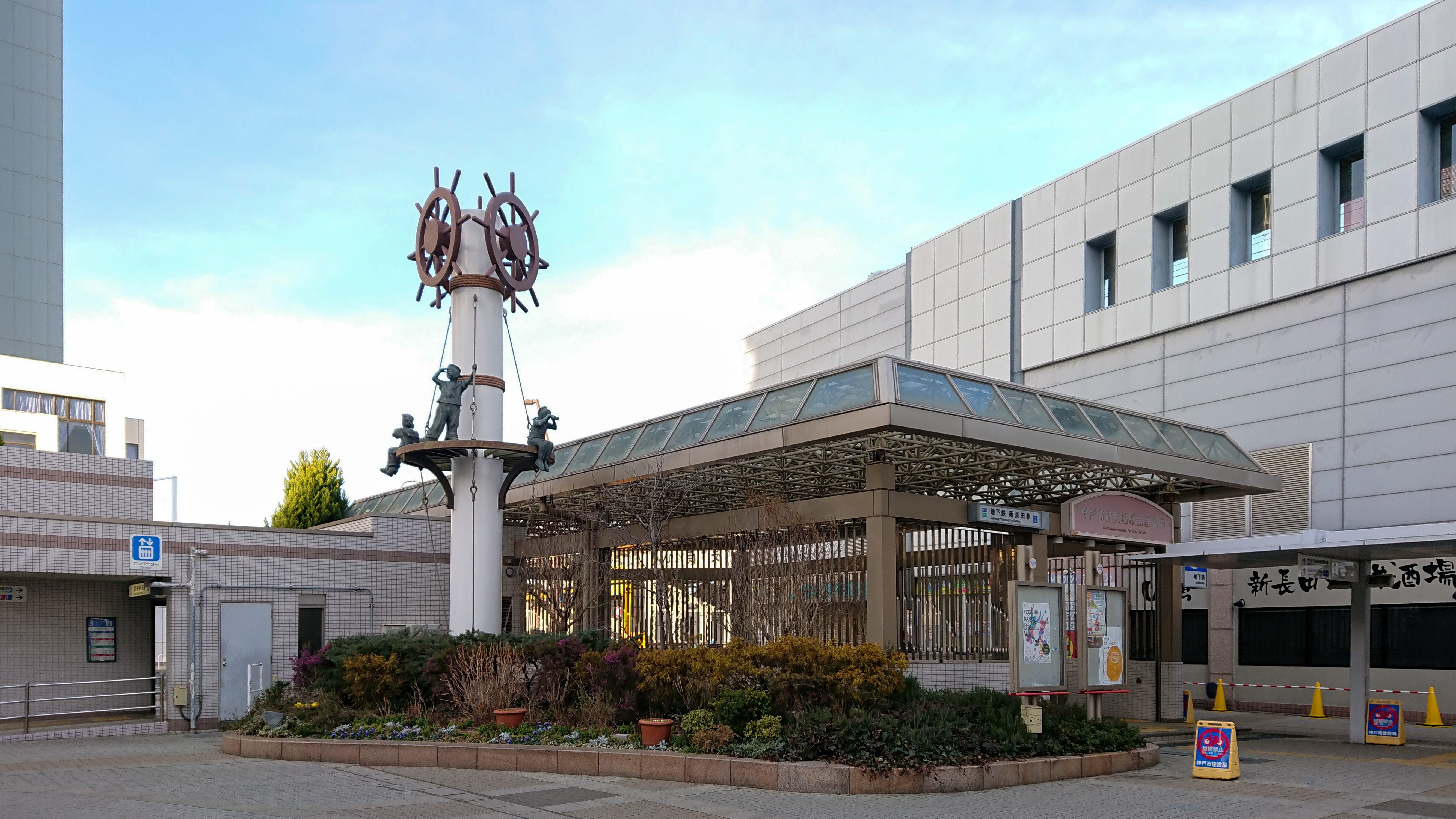 Entrance 2 to Kobe Subway Shin-Nagat Station in Kobe, Japan